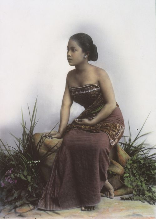 Studioportrait of a Javanese woman, possibly from Yogyakarta